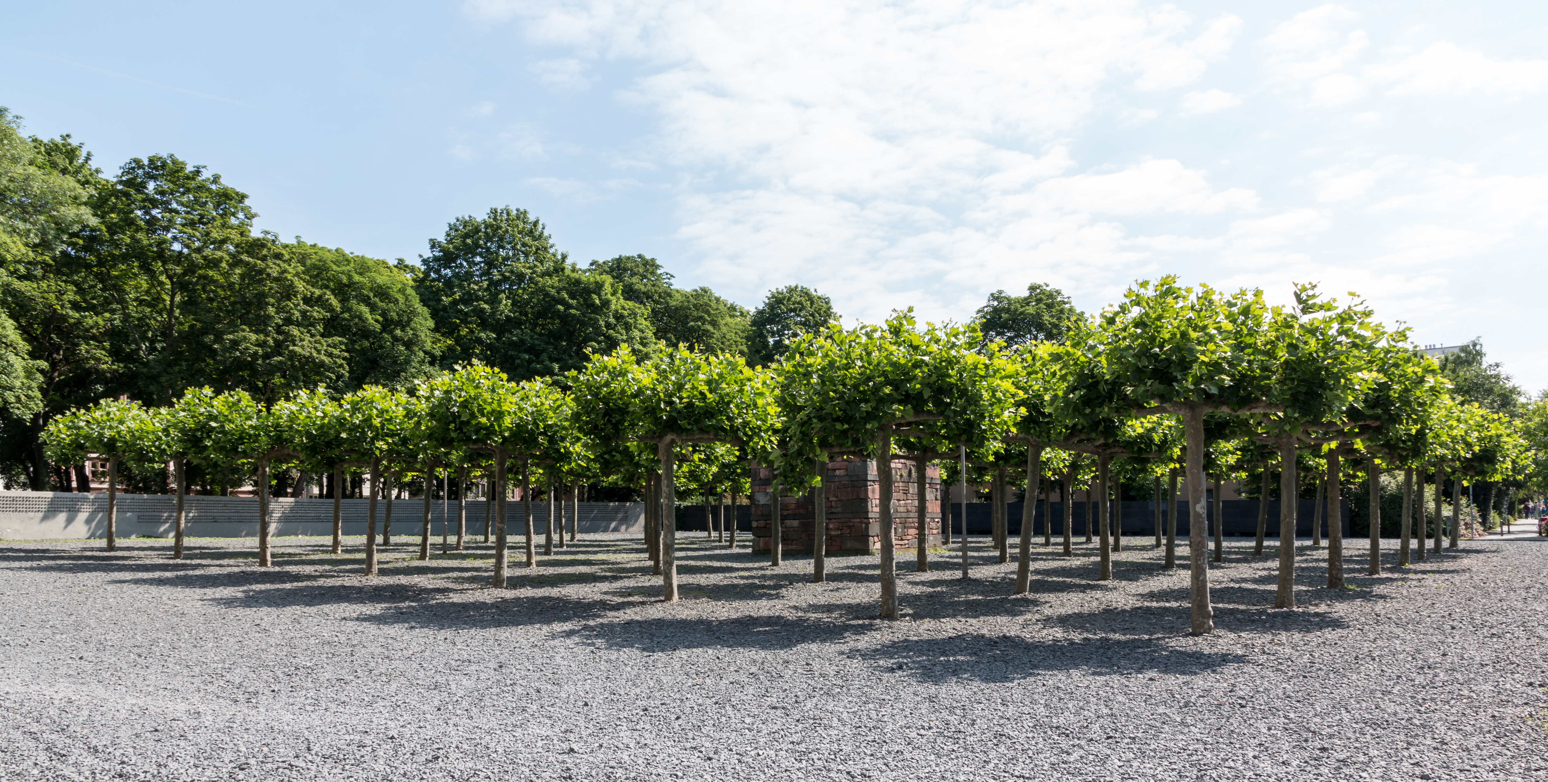 Memorial Börneplatz in Frankfurt am Main, Hesse, Germany Sculpture TitleGedenkstätte am Neuen Börneplatz für die von Nationalsozialisten vernichtete dritte jüdische Gemeinde in Frankfurt am MainArtistAndrea Wandel, Nikolaus Hirsch, Wolfgang LorchDate16 June 1996